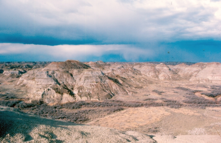 Dinosaur Park Formation in Dinosaur Provincial Park, Alberta